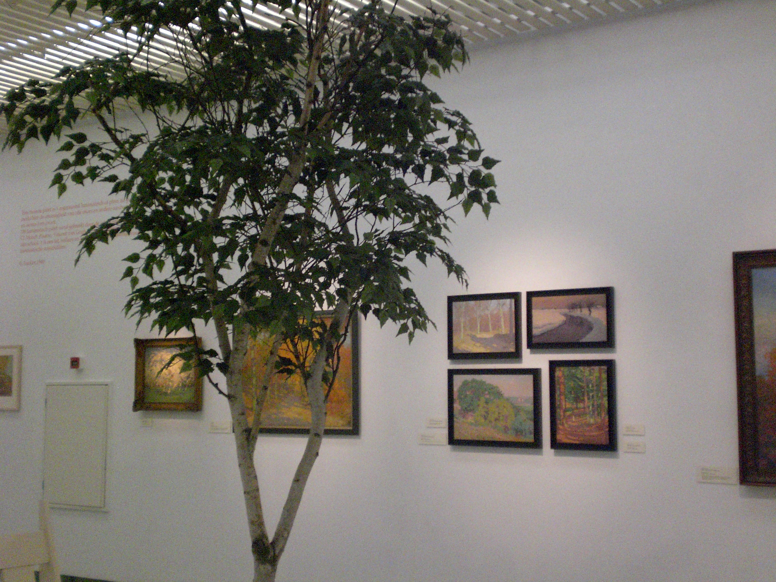 Exposition of work of Eugène Lücker, Museum Het Valkhof Nijmegen Exposition of work of Eugène Lücker, Museum Het Valkhof Nijmegen